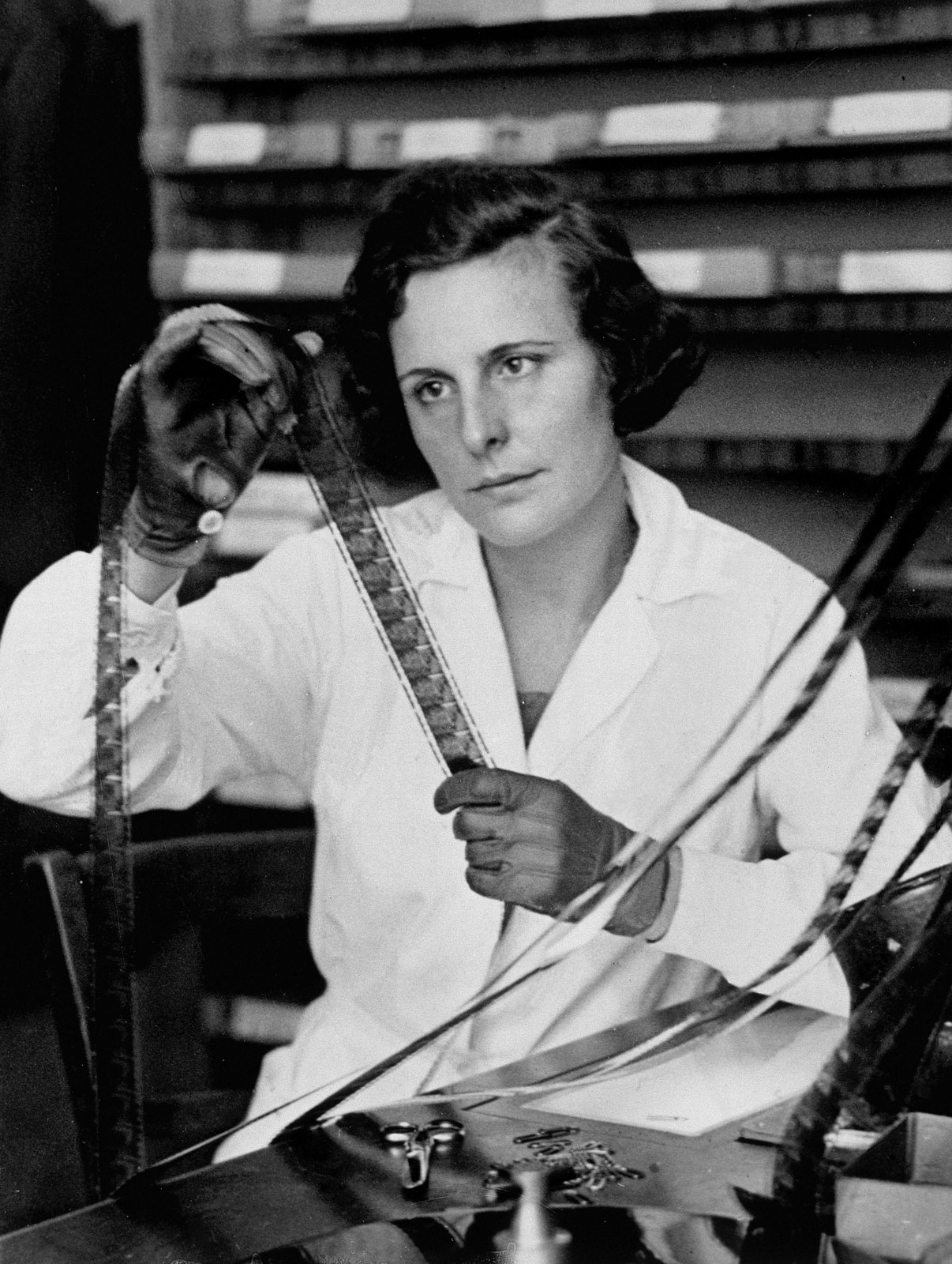 Leni Riefenstahl at work on the film cutting table